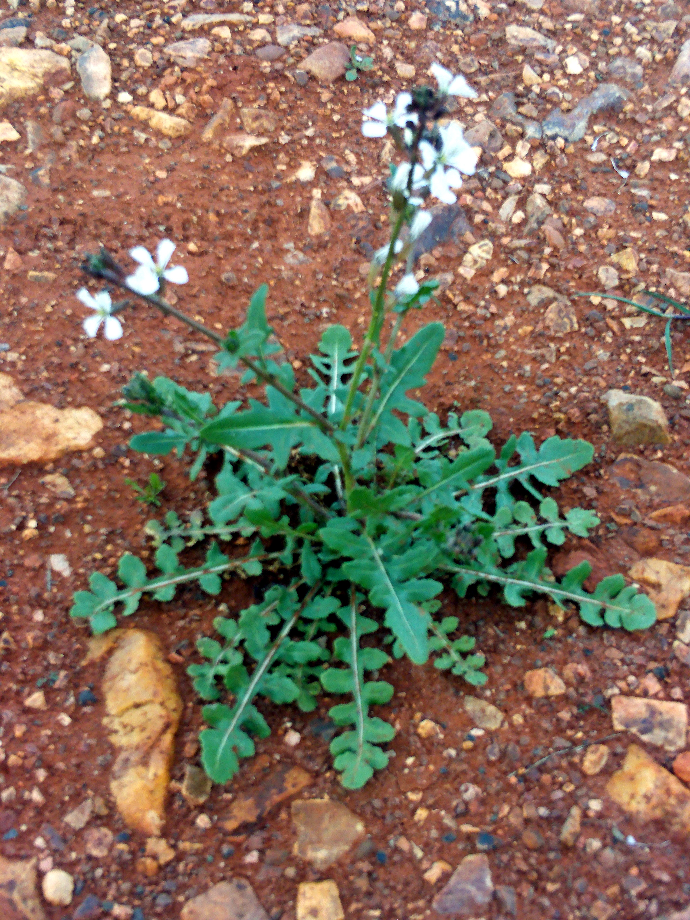 Eruca versicaria Habit, Cañada de Calatrava, Campo de Calatrava, Spain